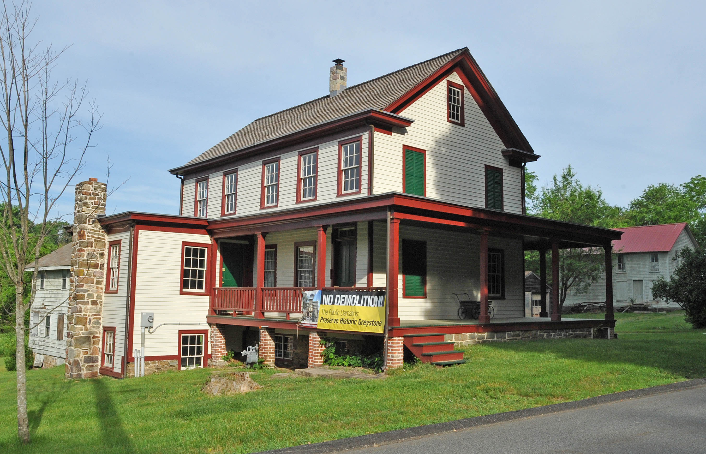 THIS FARM HAS OPERATED CONTINUOUSLY SINCE 1803, PRIMARILY UNDER TWO FAMILIES, AYRES (1803-1896) AND KNUTH (1906-1996). FROM THE 1850S TO THE 1930S THE FARM PROSPERED.